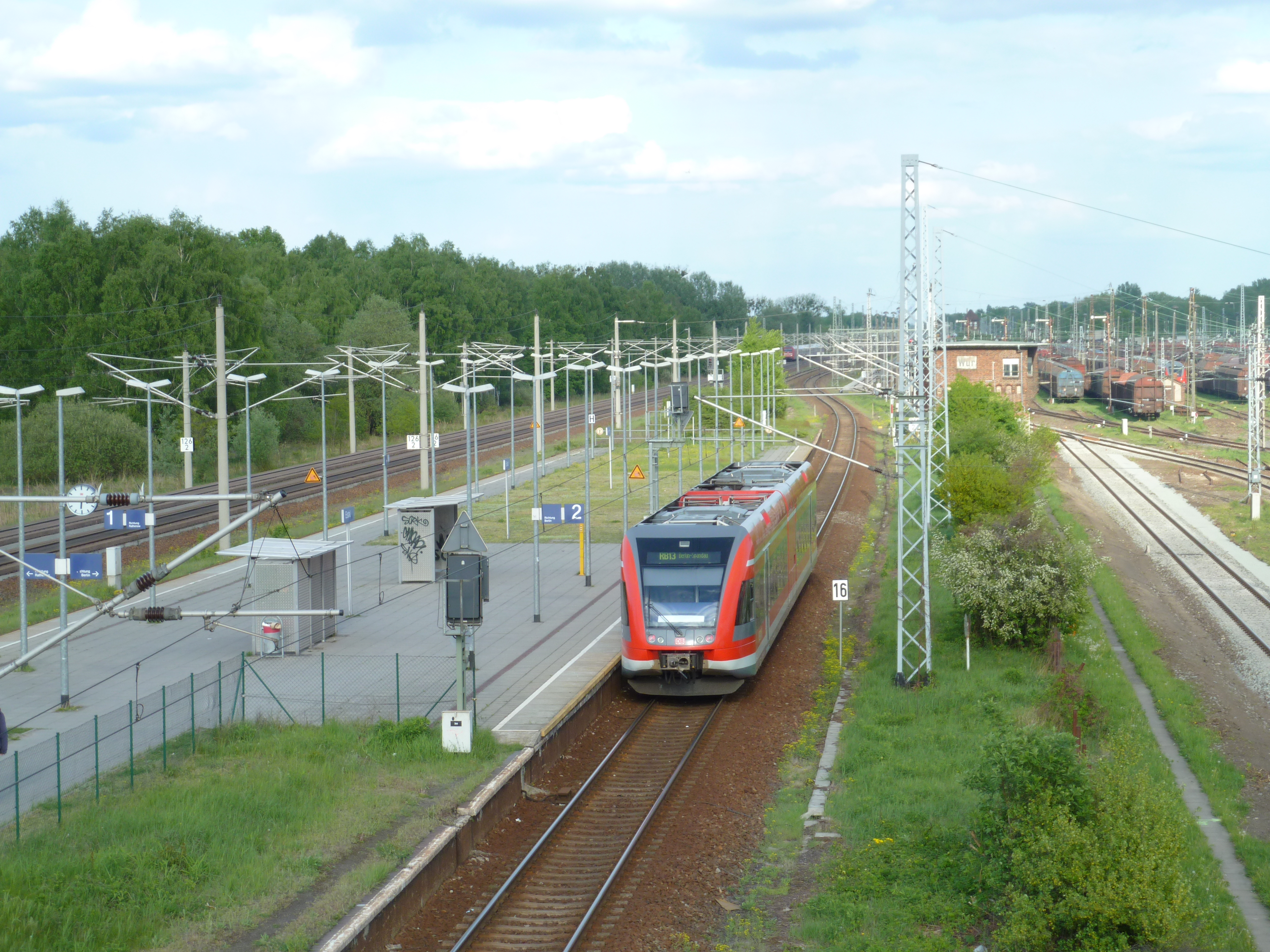 Wustermark Rangierbahnhof, platform Elstal